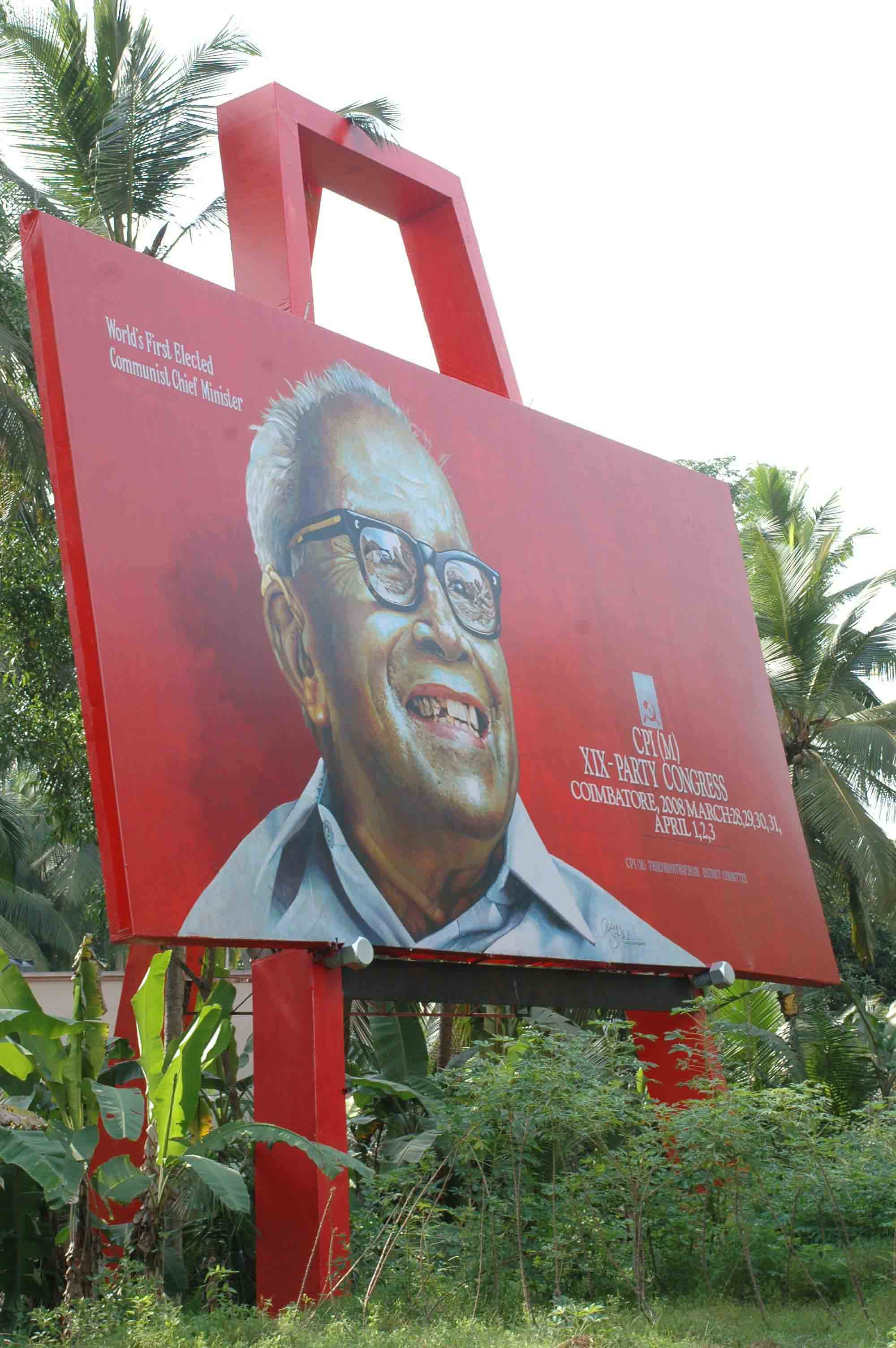 "The Guinness World Records 'LARGEST EASEL' was made by Rajasekharan Parameswaran. It is 56.5 ft tall and 31 ft wide and holds the painting of EMS of size 50 ft width and 25 ft height and was measured on 19thApril 2008"